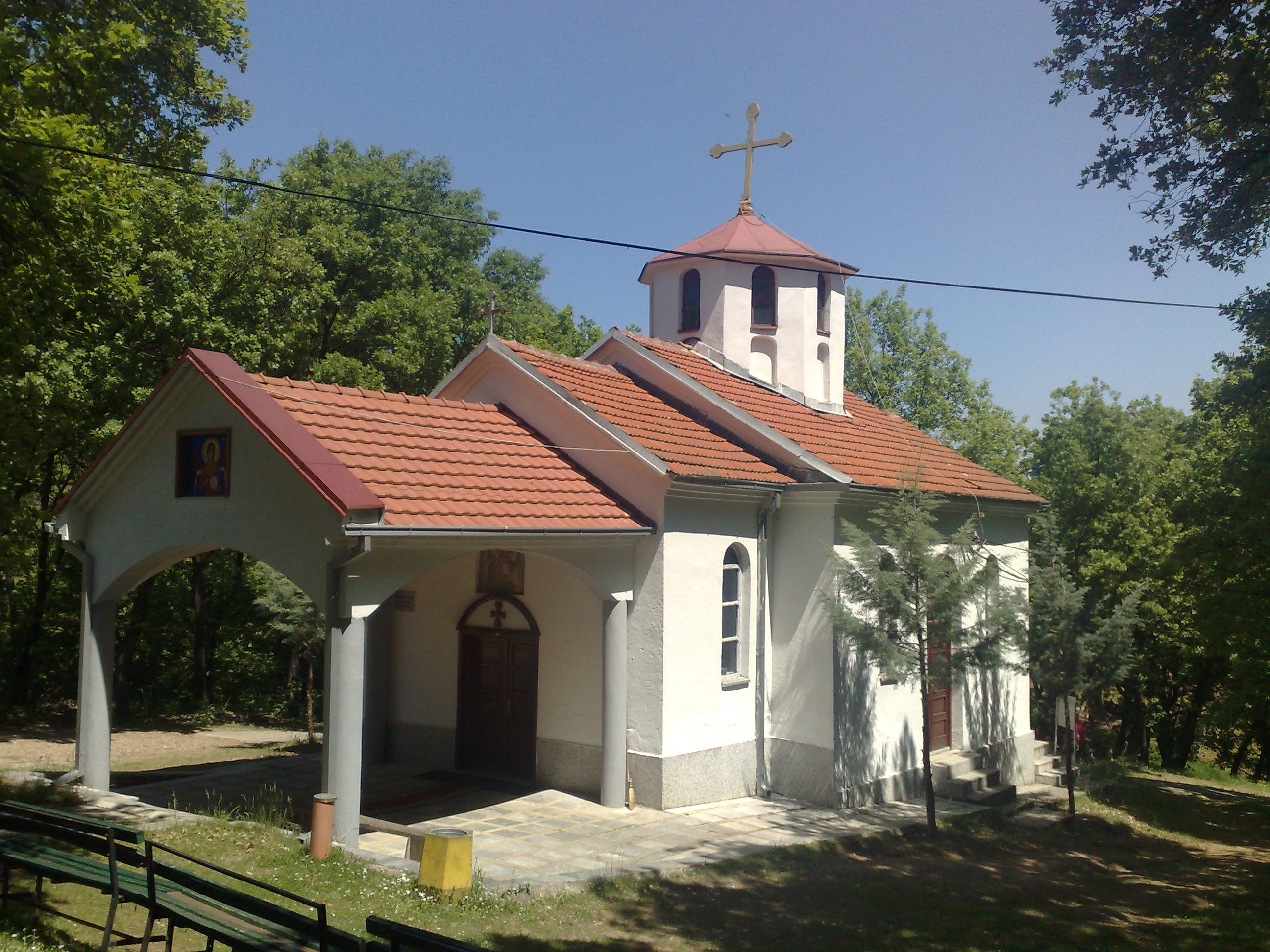 Тhe church of Saint Archangel Gabriel in Zelenikovo, Macedonia